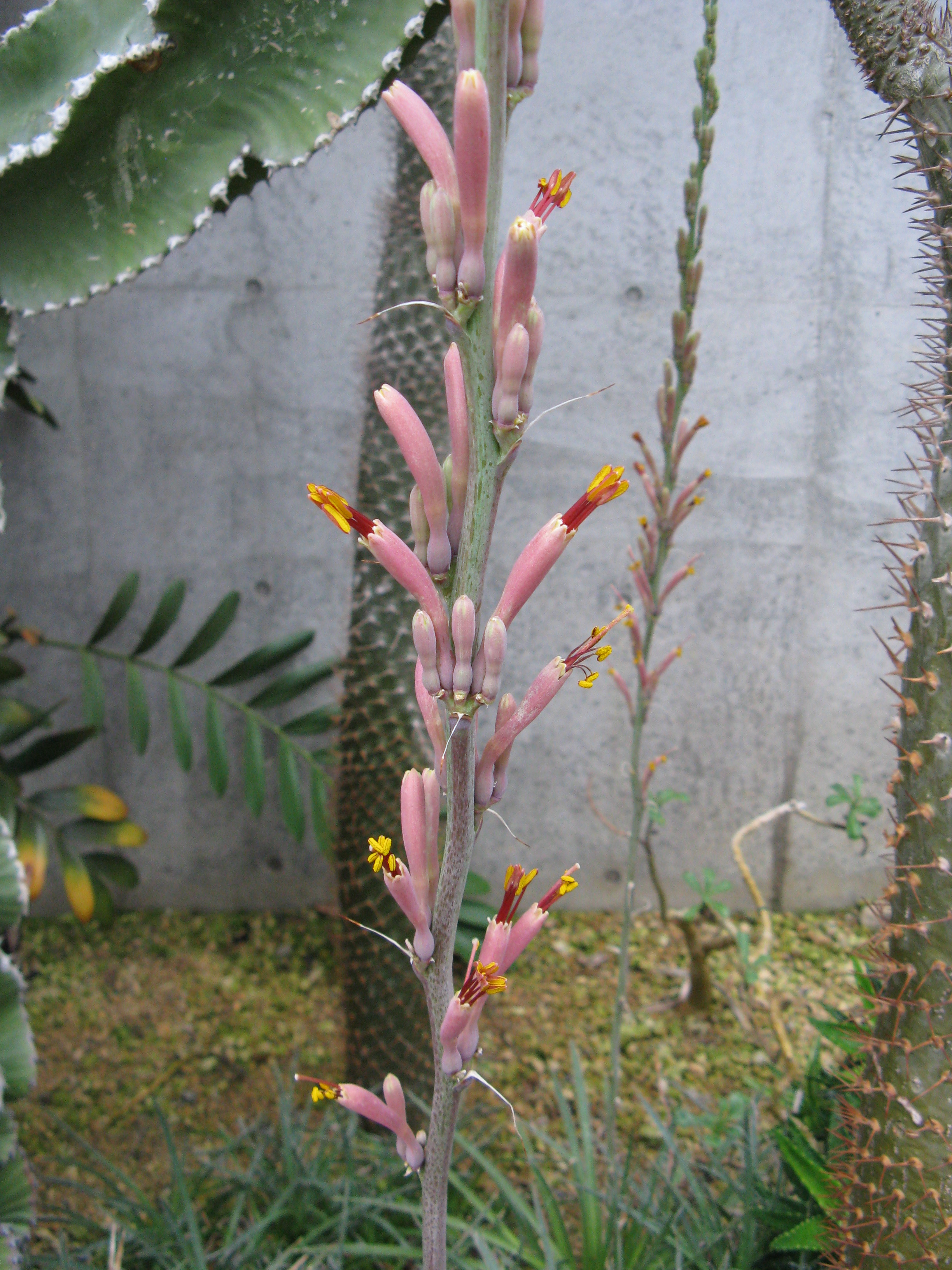 Scientific name Agave parviflora Place:Osaka Prefectural Flower Garden,Osaka,Japan